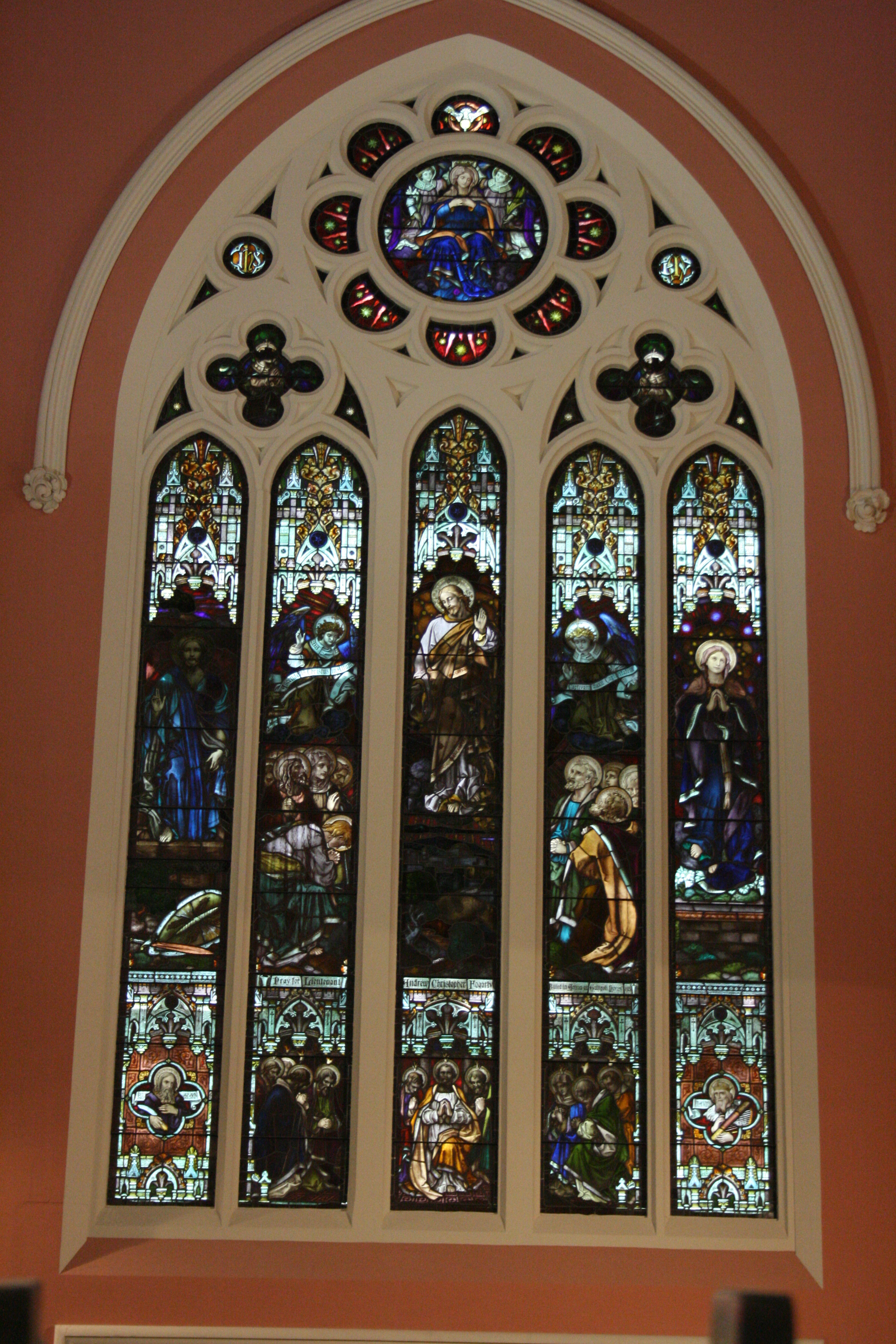 An example of a stain glass window at Star of the Sea